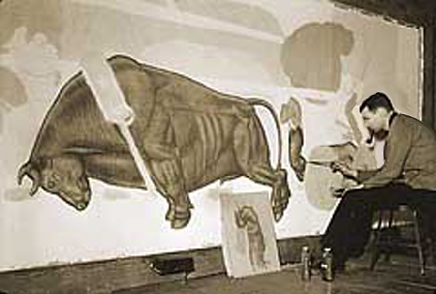 Watrous painting a Mural